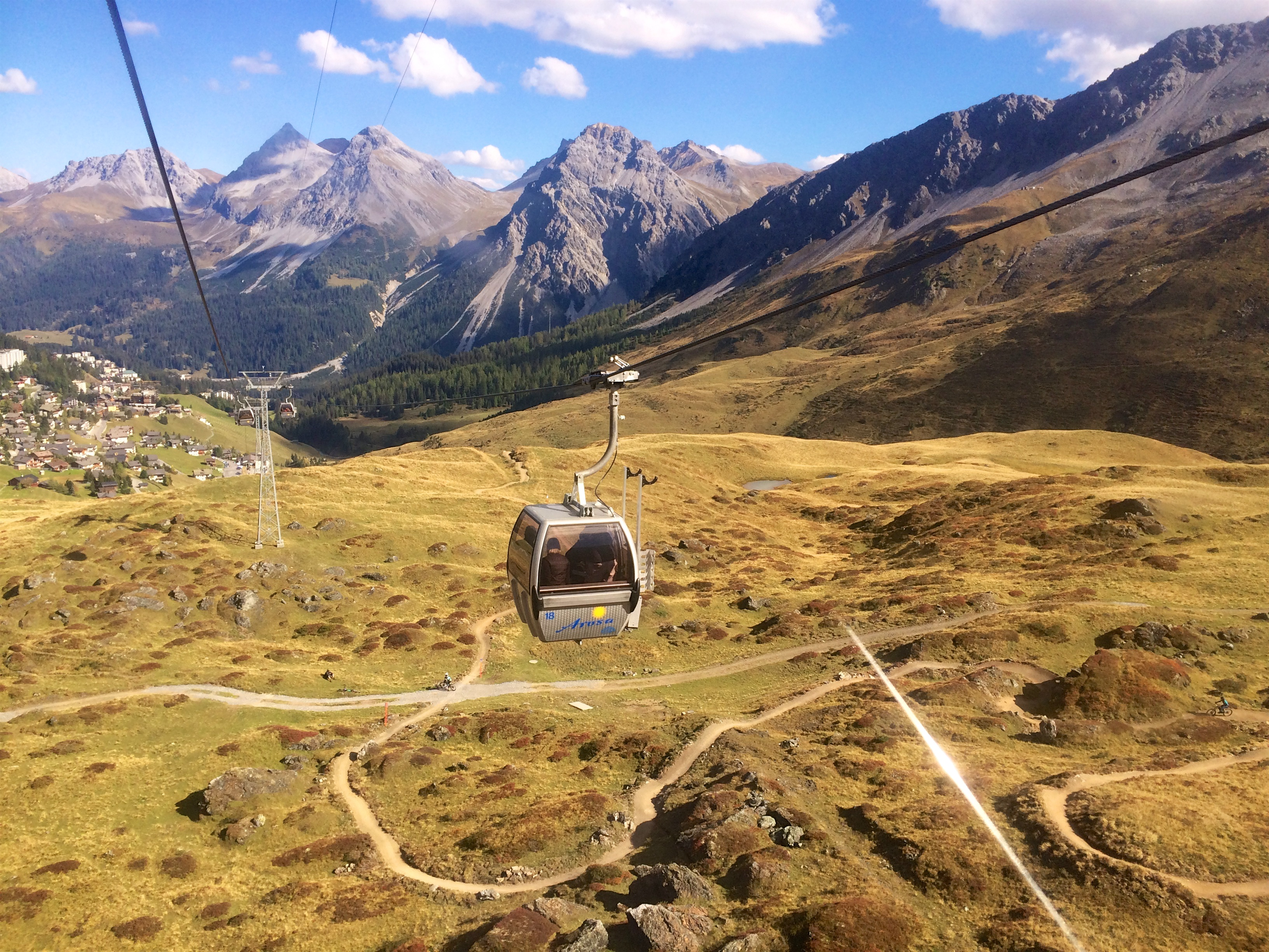 The "Hörnli Trail", a new Mountainbike Flowtrail in Arosa/Switzerland